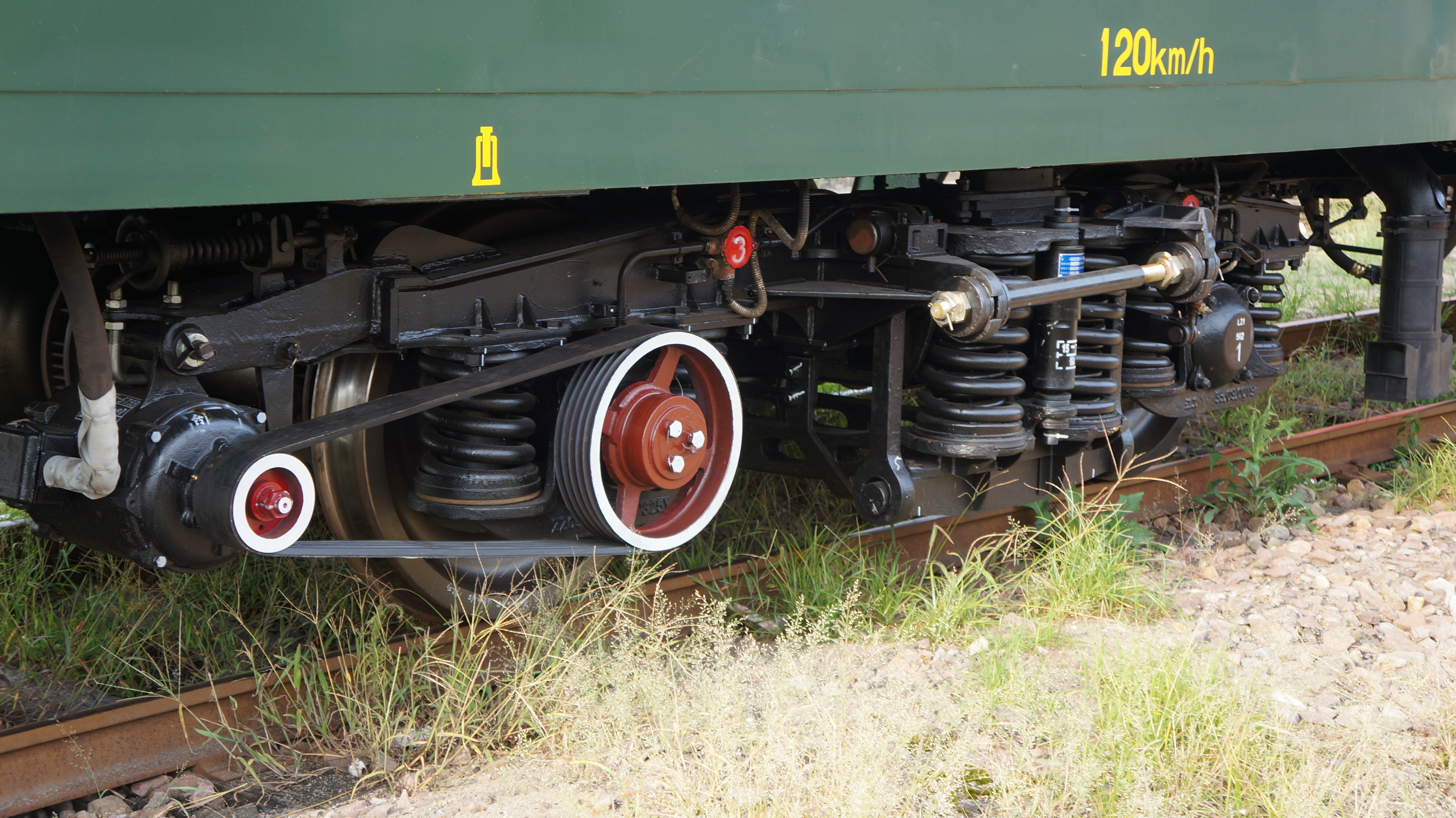 Bogie of 25B Coaches